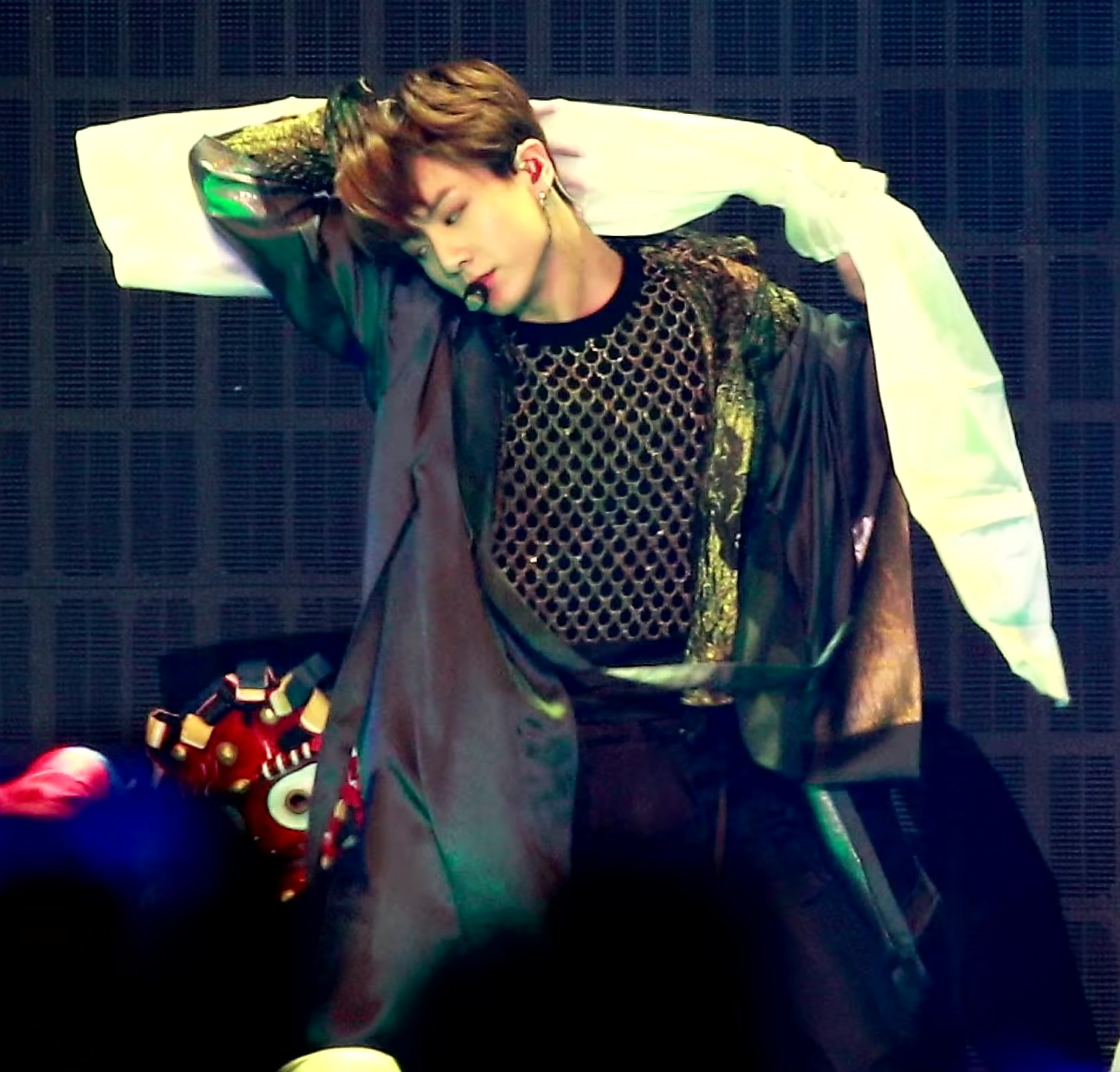 Jeon Jung-kook performing Talchum at MMA, 1 December 2018